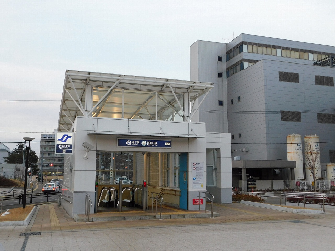 Sendai city subway tozai(east-west) line Aobayama station (south entrance)